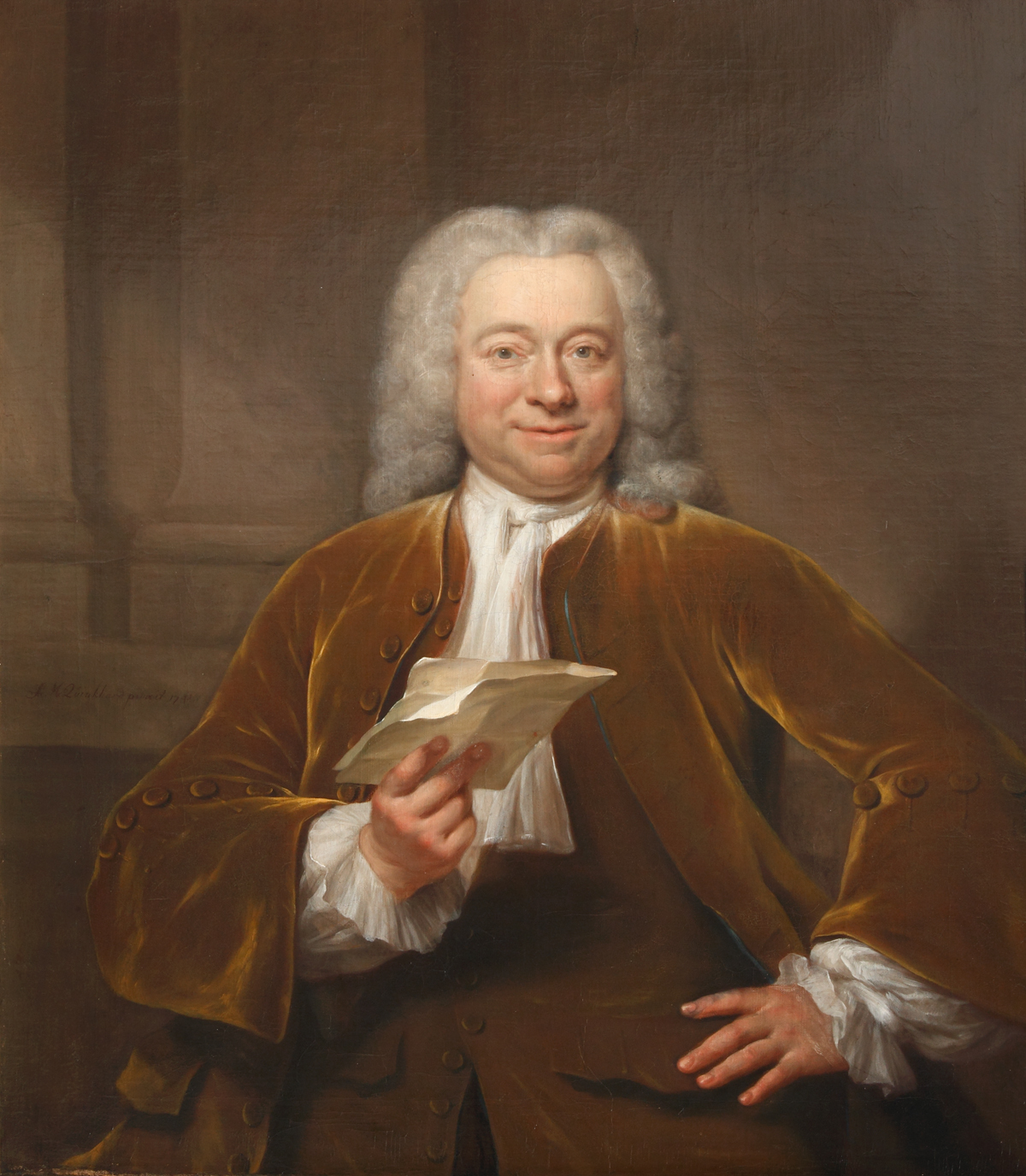 Jacques Philippe d´Orville (1696-1751) Dutch classical scholar